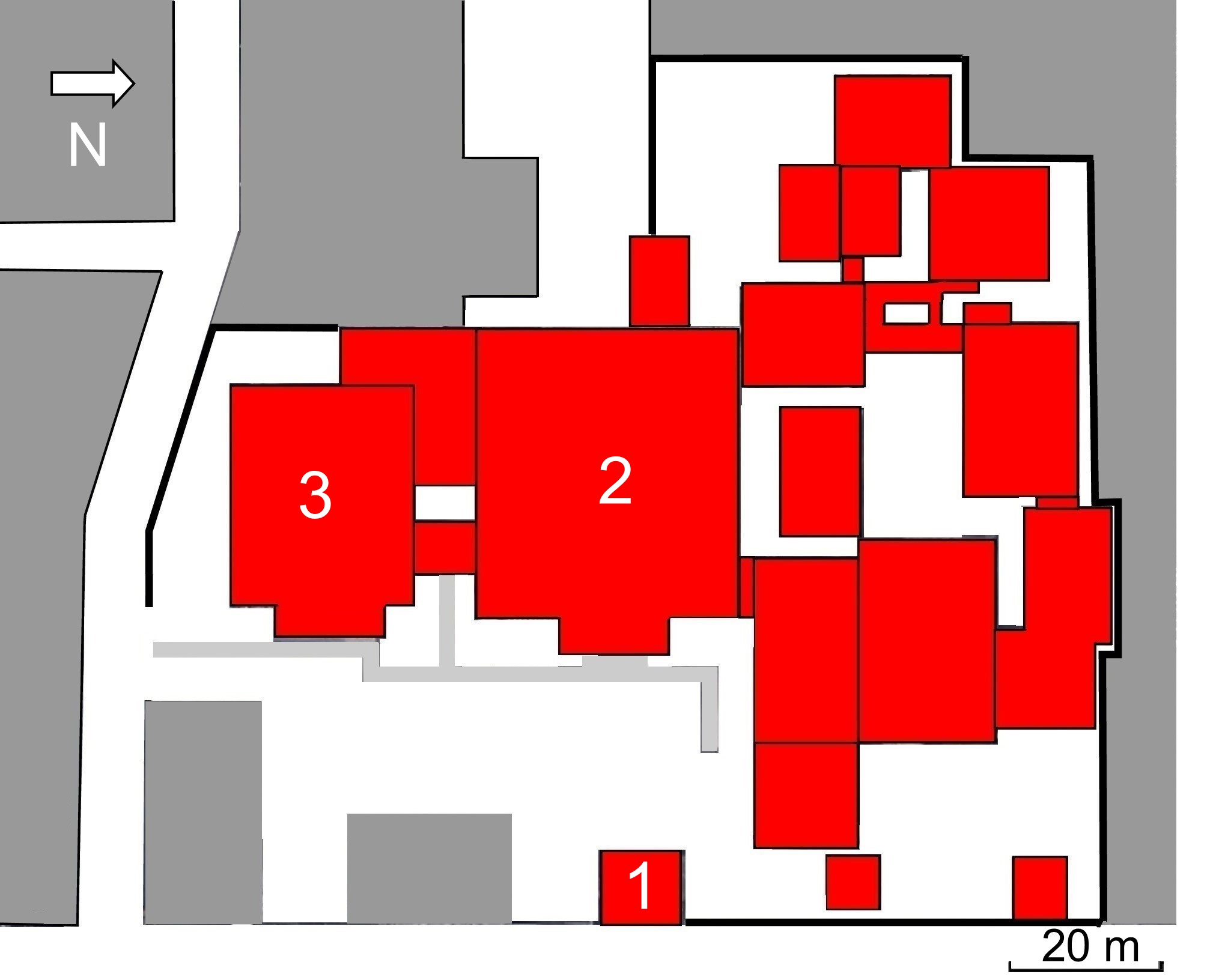 Layout of Bukkô-ji (Kyôto) Japan, North to the right